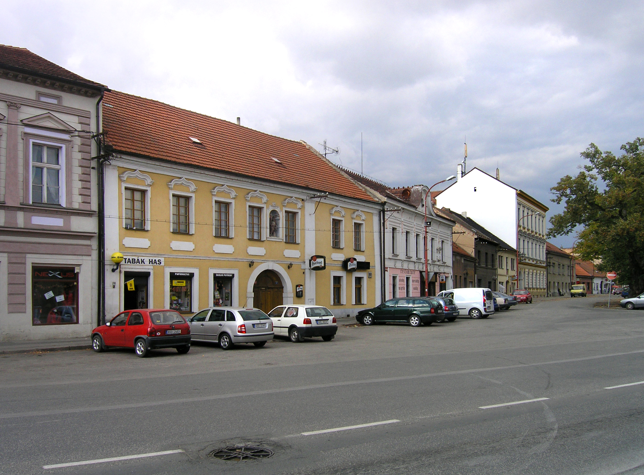 Houses at Komenského square in Kostelec nad Labem, Czech Republic